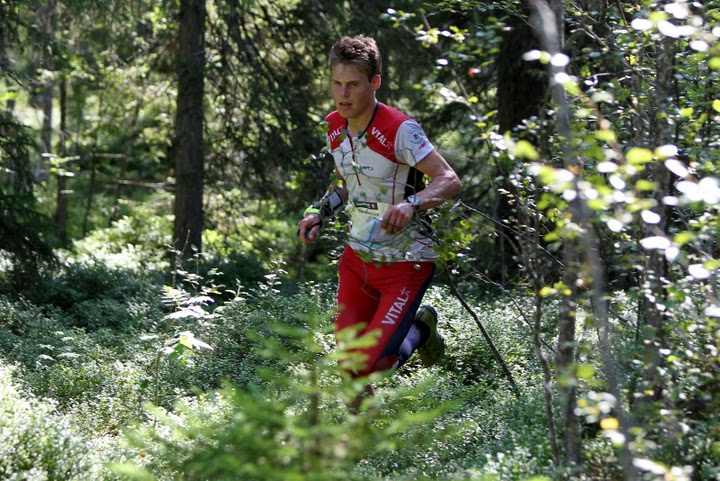 Carl Waaler Kaas at World Orienteering Championships 2010 in Trondheim, Norway - Middle Distance Qualification